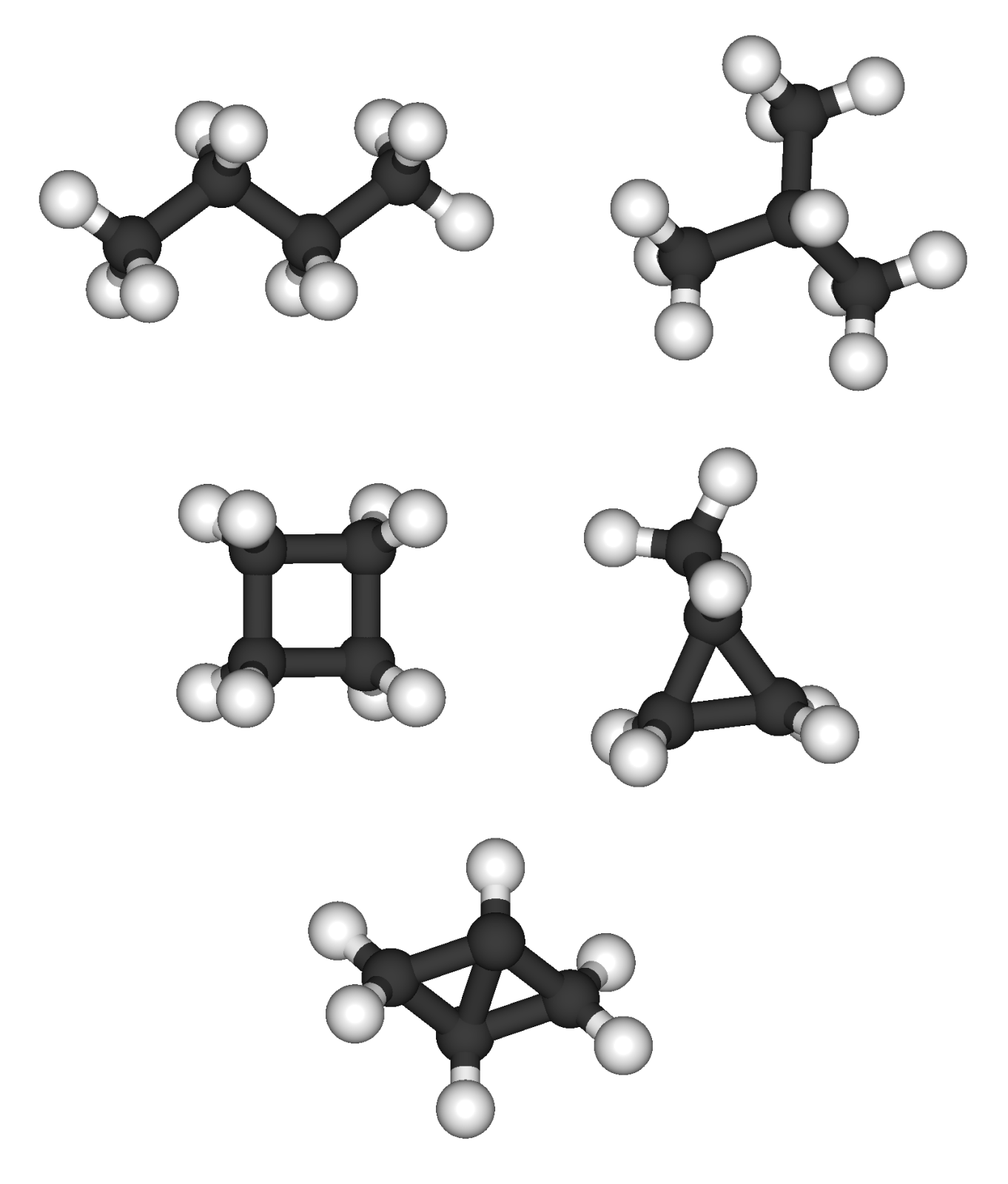 Ball-and-stick models of butane (top left), isobutane (top right), cyclobutane (middle left), methylcyclopropane (middle right) and bicyclo[1.1.0.]butane (bottom). Created using Accelrys DS Visualizer Pro 1.6 and GIMP.